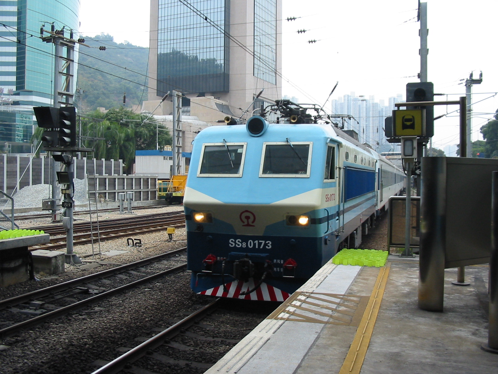 Electric loco SS8-0173 passing through Shatin station